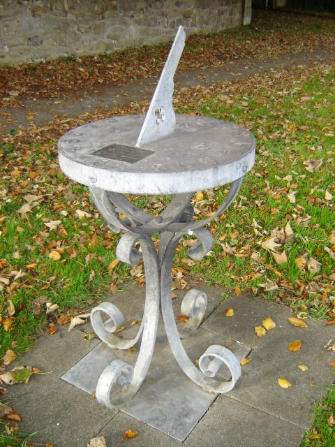 Sun Dial in Nercwys This sun dial was placed on the western edge of Nercwys village to mark the millennium celebrations in 2000. The other millennium monument in Nercwys is a small planting of oak trees on the edge of Nercwys Forest.